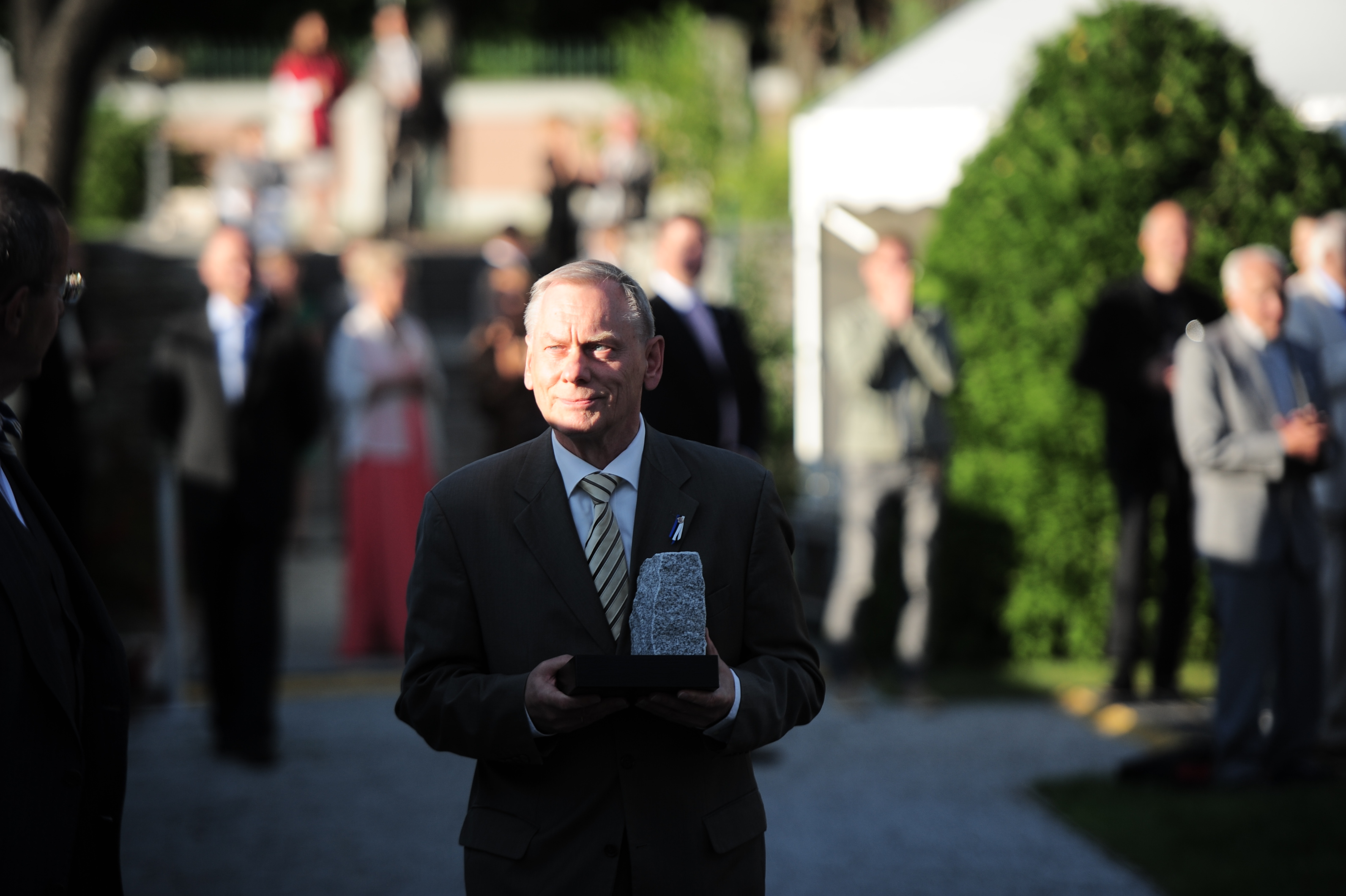 President Ilves gave the annual Restoration of Independence memorial stone to the Estonian heritage movement. Trimivi Velliste, the first Chairman of Estonian Heritage Society.